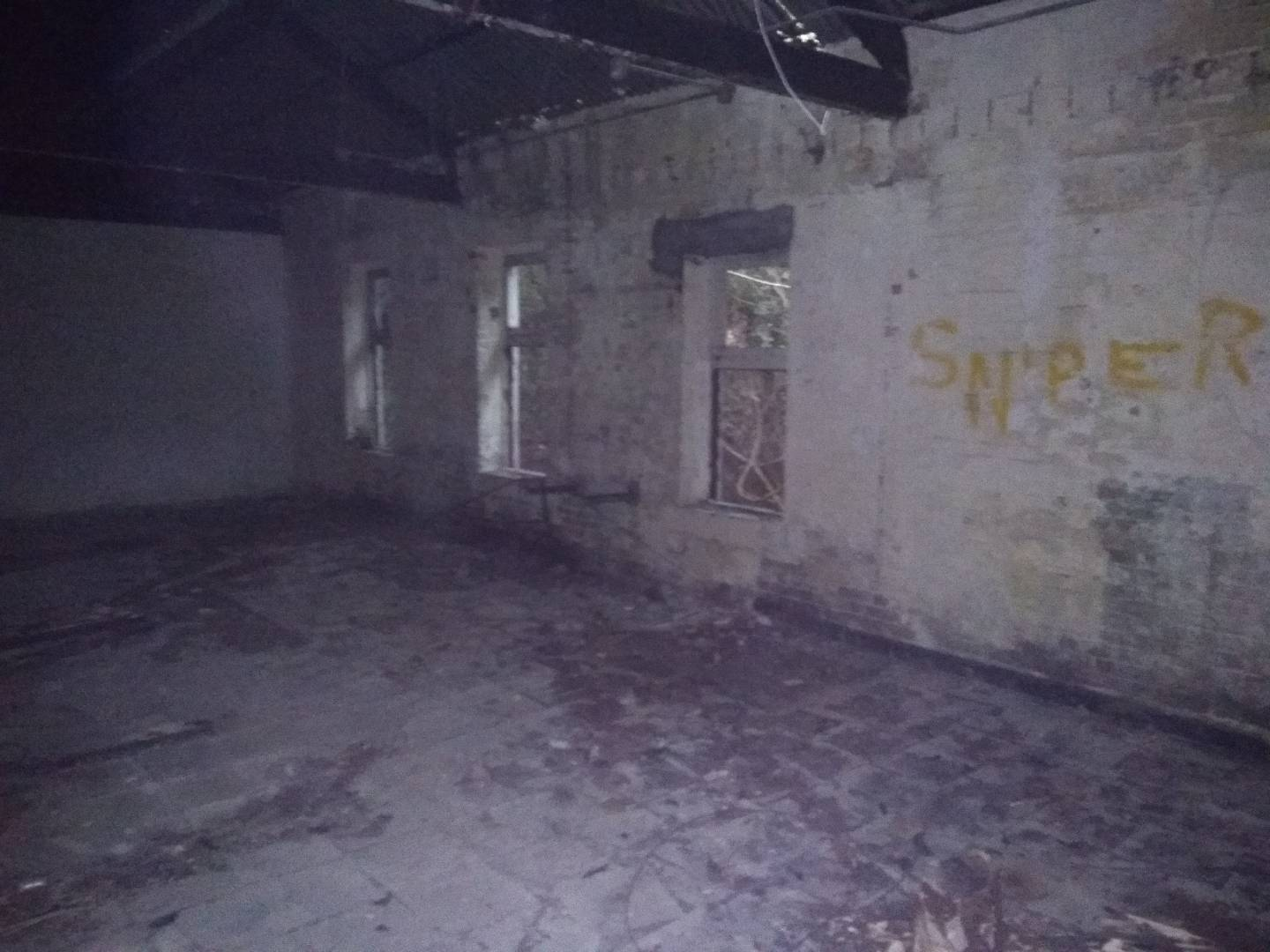 Block 44 of Lyemun Barracks, Sniper Room